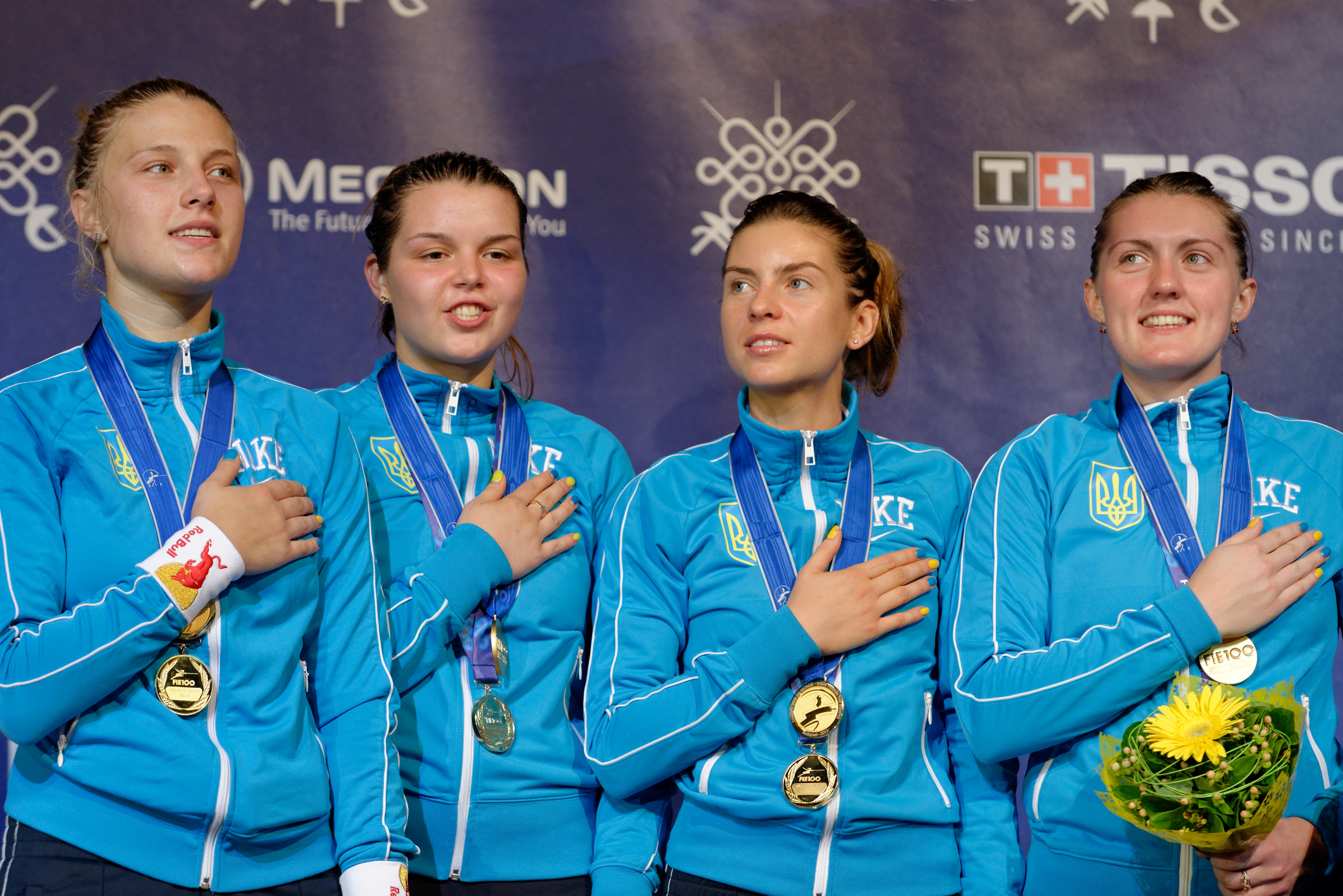 Ukraine' women sabre team (from left to right, Olha Kharlan, Alina Komashchuk, Halyna Pundyk, Olena Voronina) sing their national anthem on the podium of the 2013 World Fencing Championships 2013 at Syma Hall in Budapest, 12 August 2013.